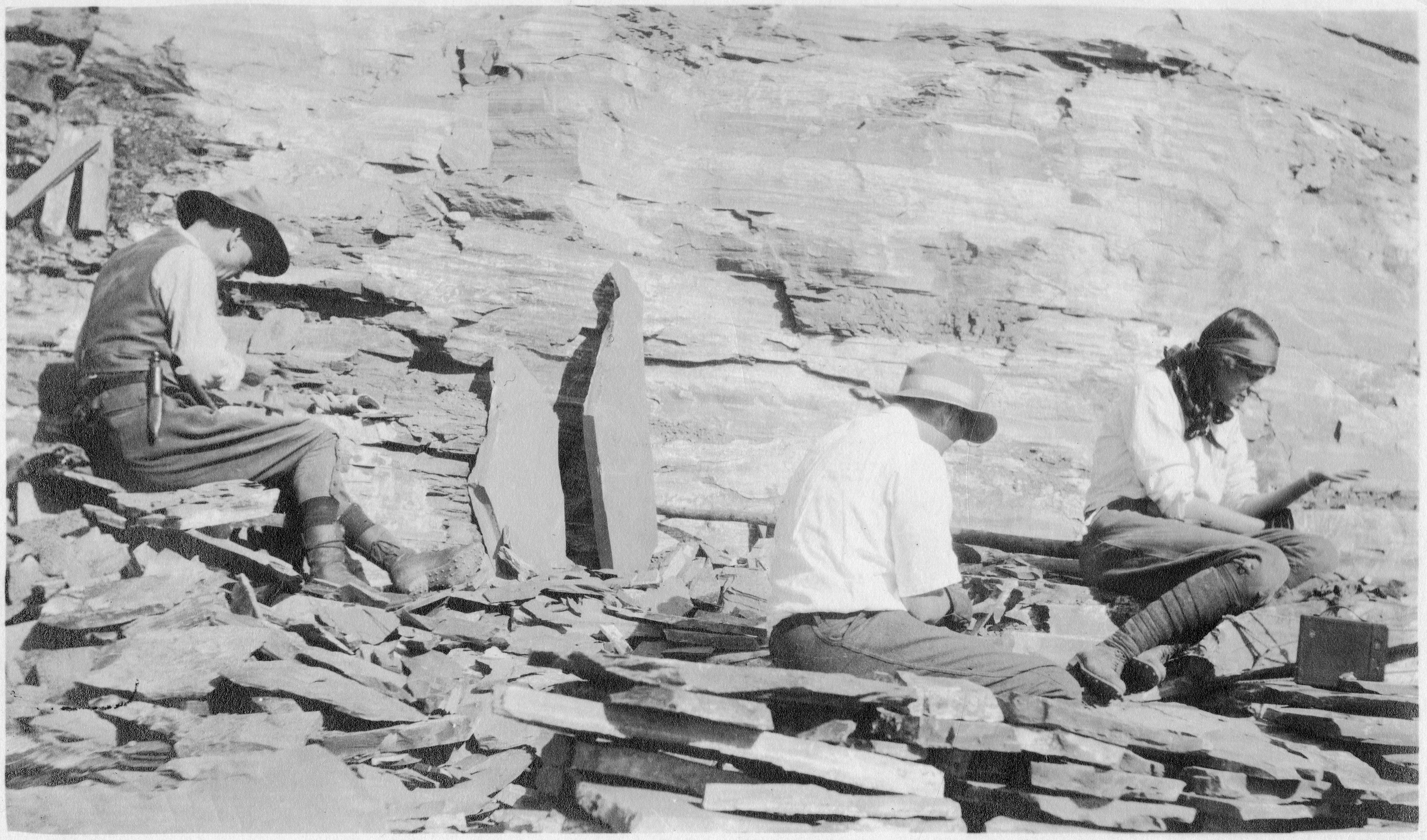 In 1909, while in the Canadian Rockies near Field, British Columbia, Charles Doolittle Walcott (1850-1927) discovered what has come to be known as the Burgess Shale. Named after Burgess Pass near the location of his discovery, the shale Walcott collected contained carbonized organisms of such abundance and age that they subsequently provided the foundation for study of the Cambrian Period in Western North America. Walcott, fourth Secretary of the Smithsonian, often took his entire family on collecting trips. According to the Smithsonian institution, this image shows Walcott, his son Sidney Stevens Walcott (1892-1977), and his daughter Helen Breese Walcott (1894-1965) working in the Burgess Shale Fossil Quarry, c. 1913. But, for an alternative identification, see Template:Cite jstor.